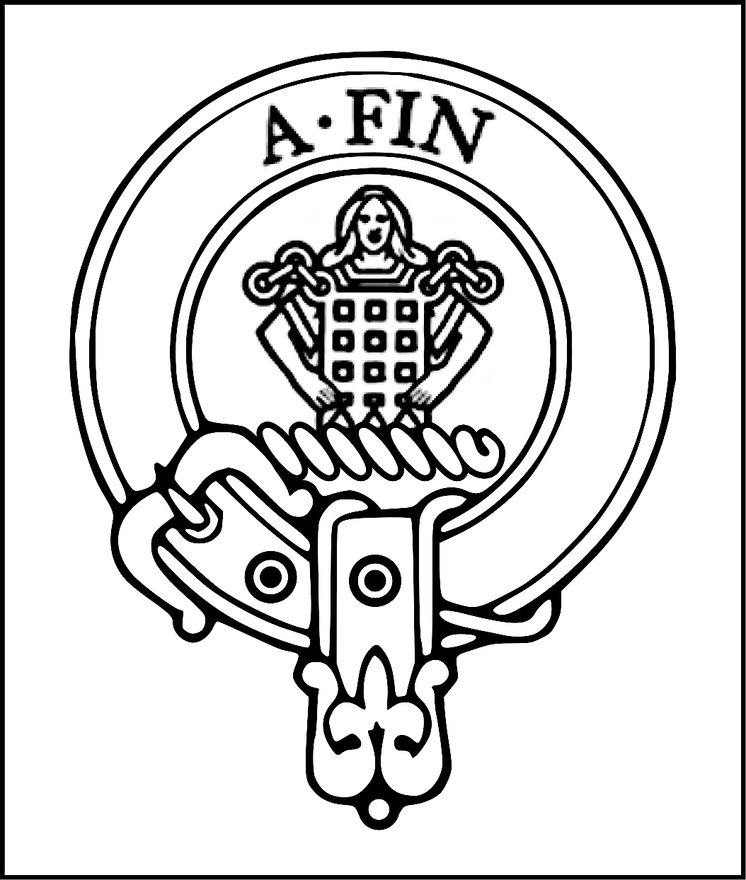 This is the clan seal of Clan Ogilvy.